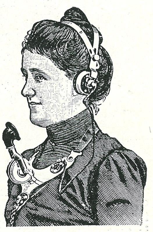 Early 20th century woman telephone operator